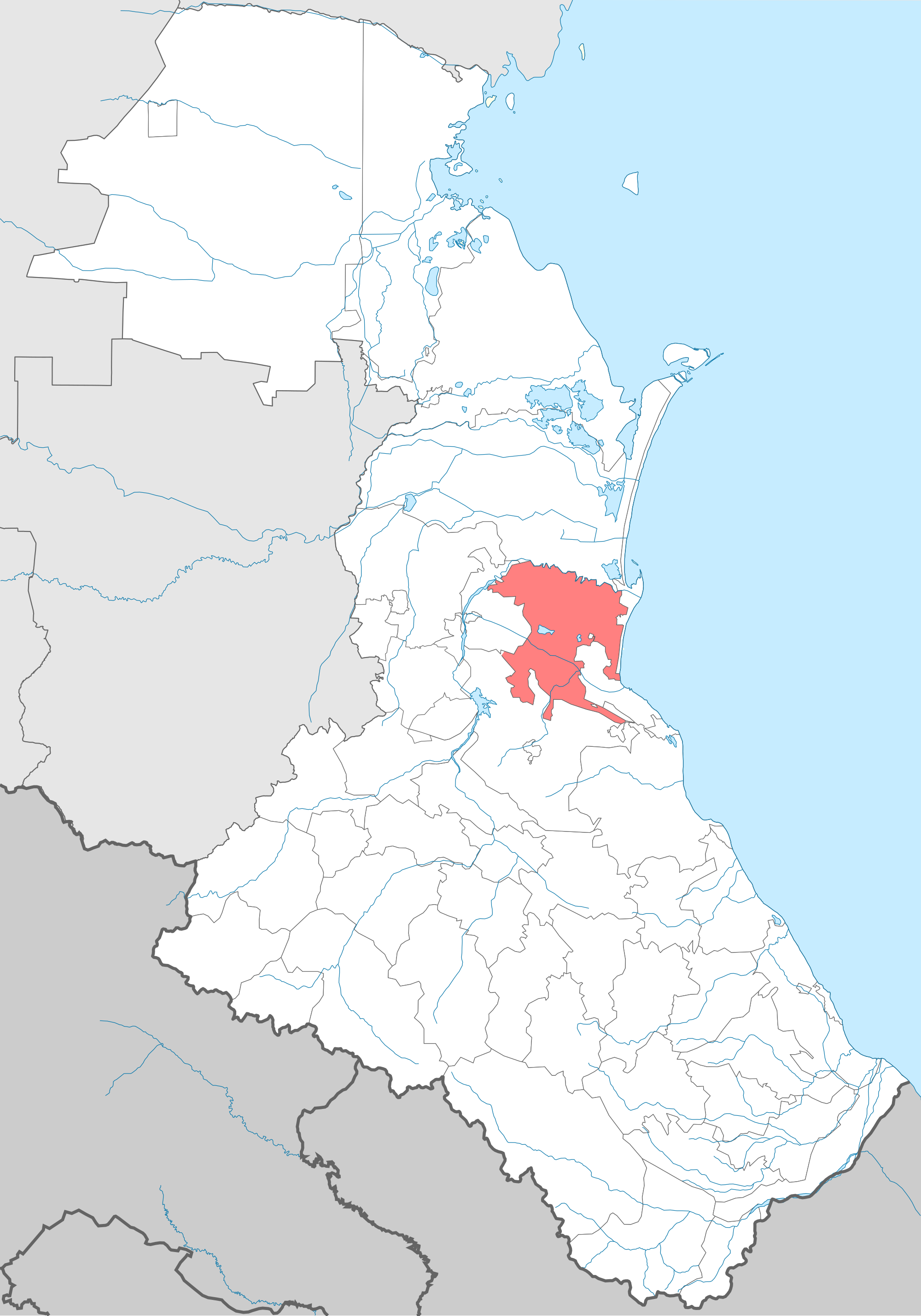 Kumtorkalinskiy_district